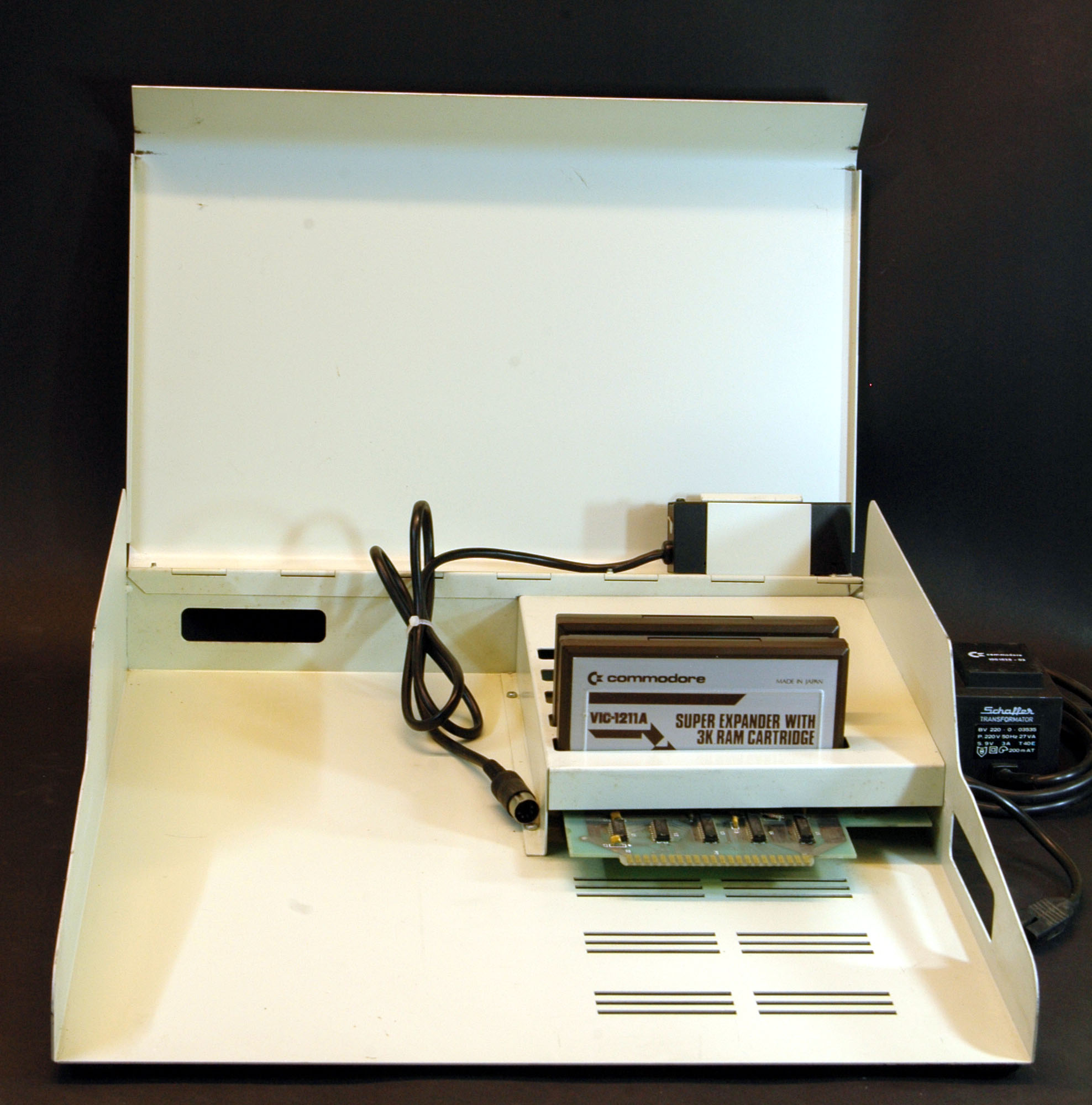 Commodore VC 1020 Expansion Box for VIC-20